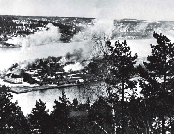 The Main Fort of the Norwegian Oscarsborg Fortress, at the approaches to Oslo, under attack from Luftwaffe bombers on 9 April, 1940